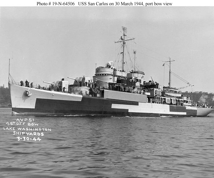 United States Navy seaplane tender USS San Carlos (AVP-51) off Houghton, Washington